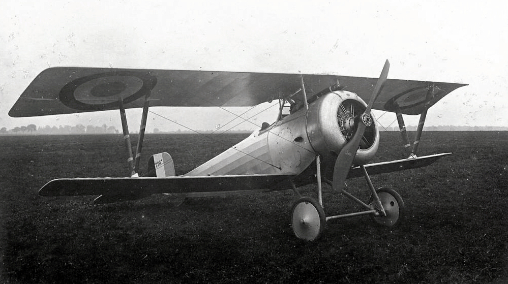 Nieuport 17bis in French markings, front quarter